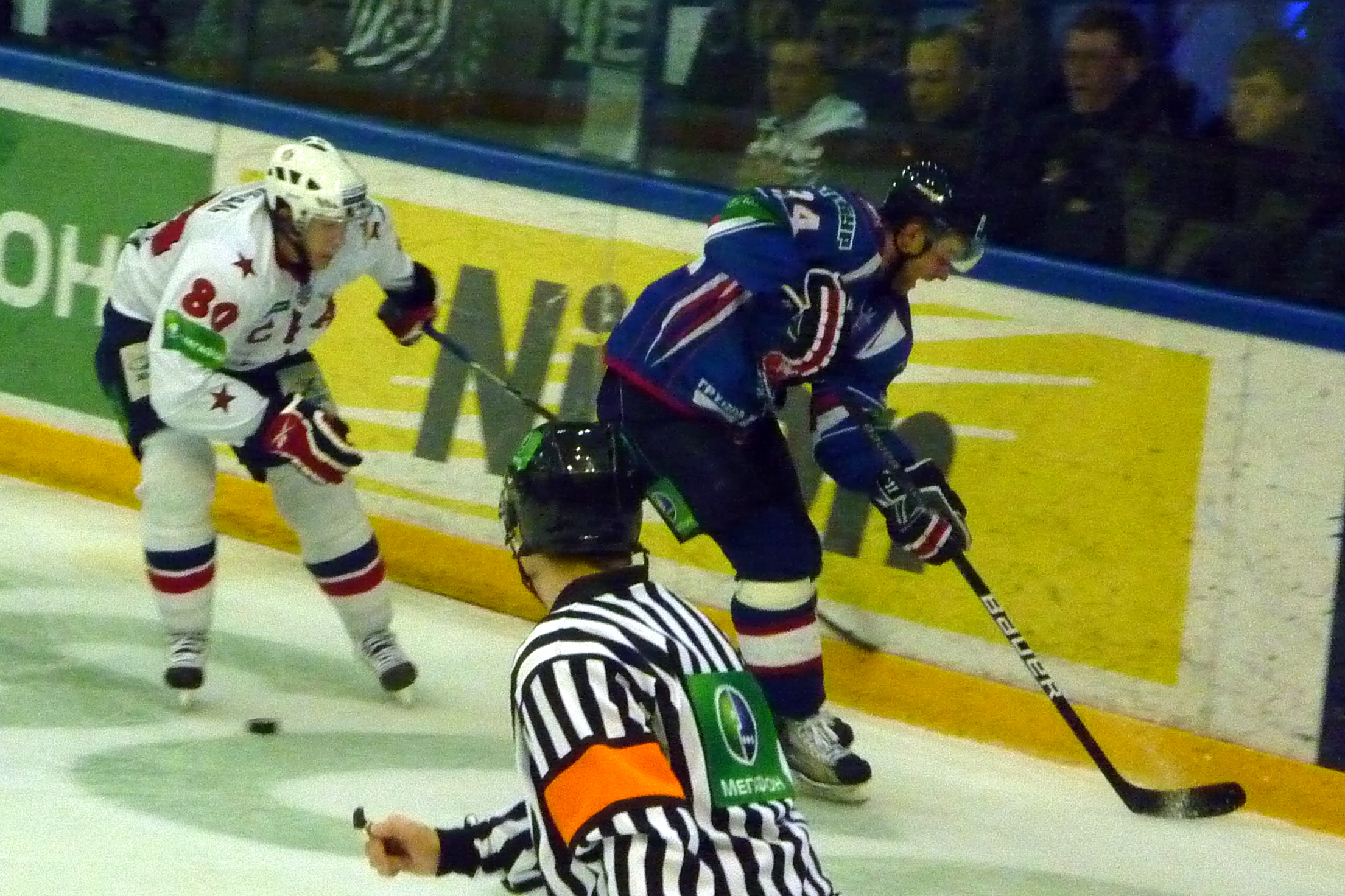 Mattias Weinhandl (white) and Sergei Vyshedkevich (blue)